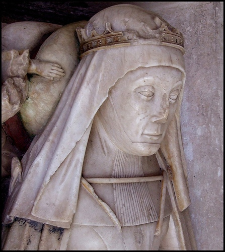 Detail of the tomb of Elizabeth Plantagenet, Duchess of Suffolk in St Andrew's parish church, Wingfield, Suffolk (built 1503)